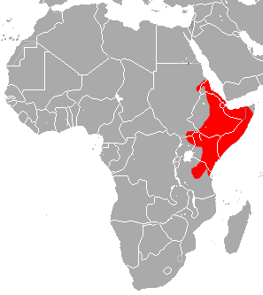 Heart-nosed Bat (Cardioderma cor) range